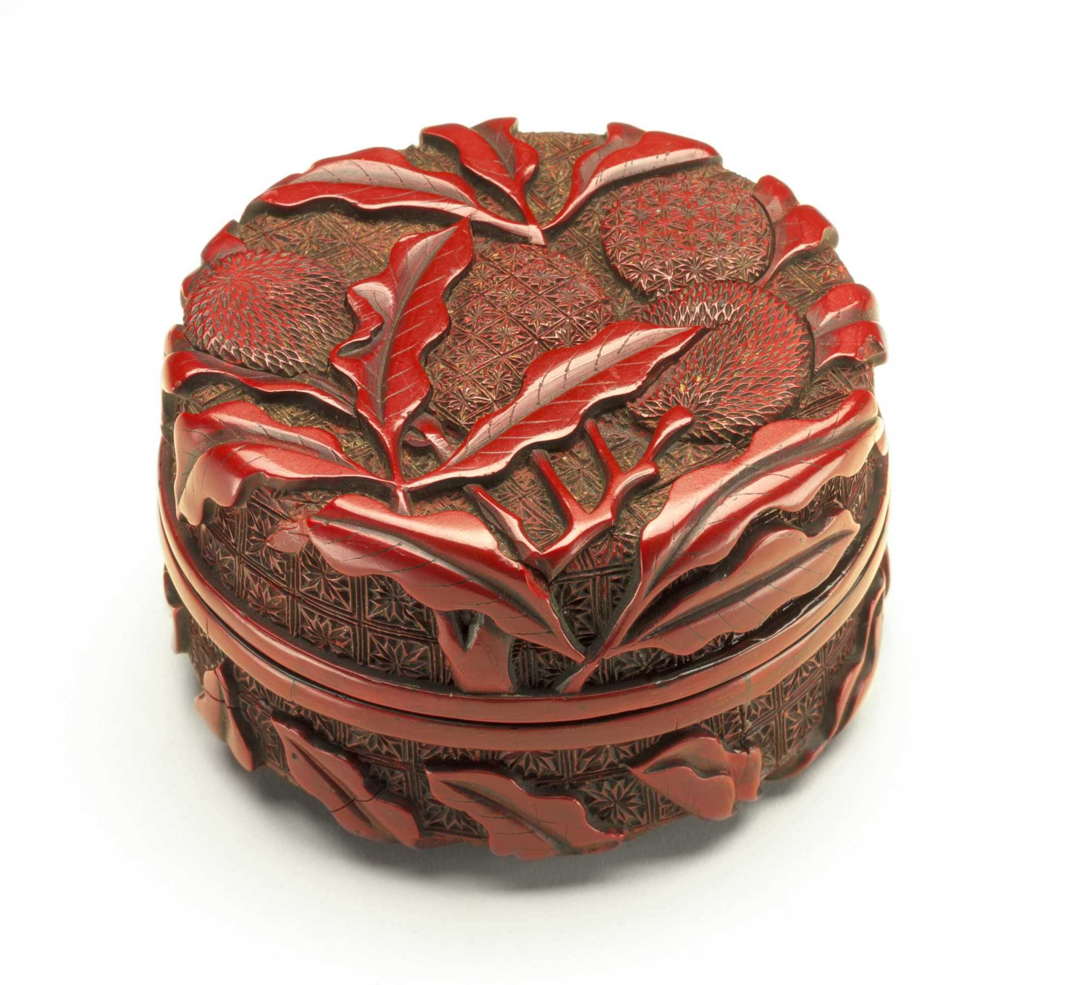 China, Chinese, Middle Ming dynasty, about 1450-1550 Furnishings; Accessories Carved red lacquer on wood core Gift of Joanne Lee in memory of Grandma Eleanor S. Gorman (M.87.205a-b) Chinese Art